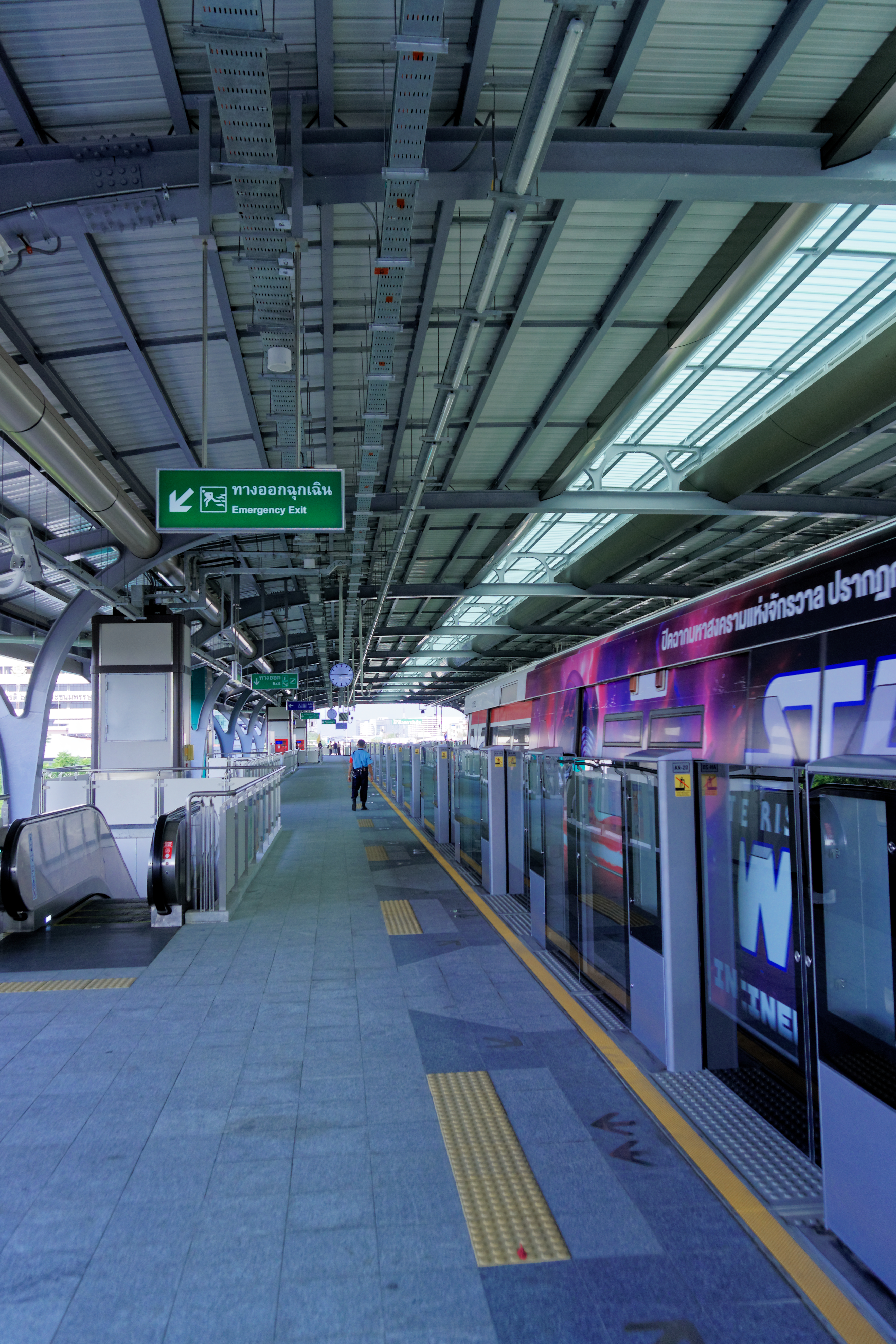 BTS Kasetsart University - Platform